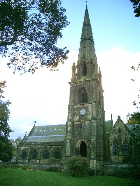 Former Unitarian Church, Todmorden, West Yorkshire, England, seen from the northwest